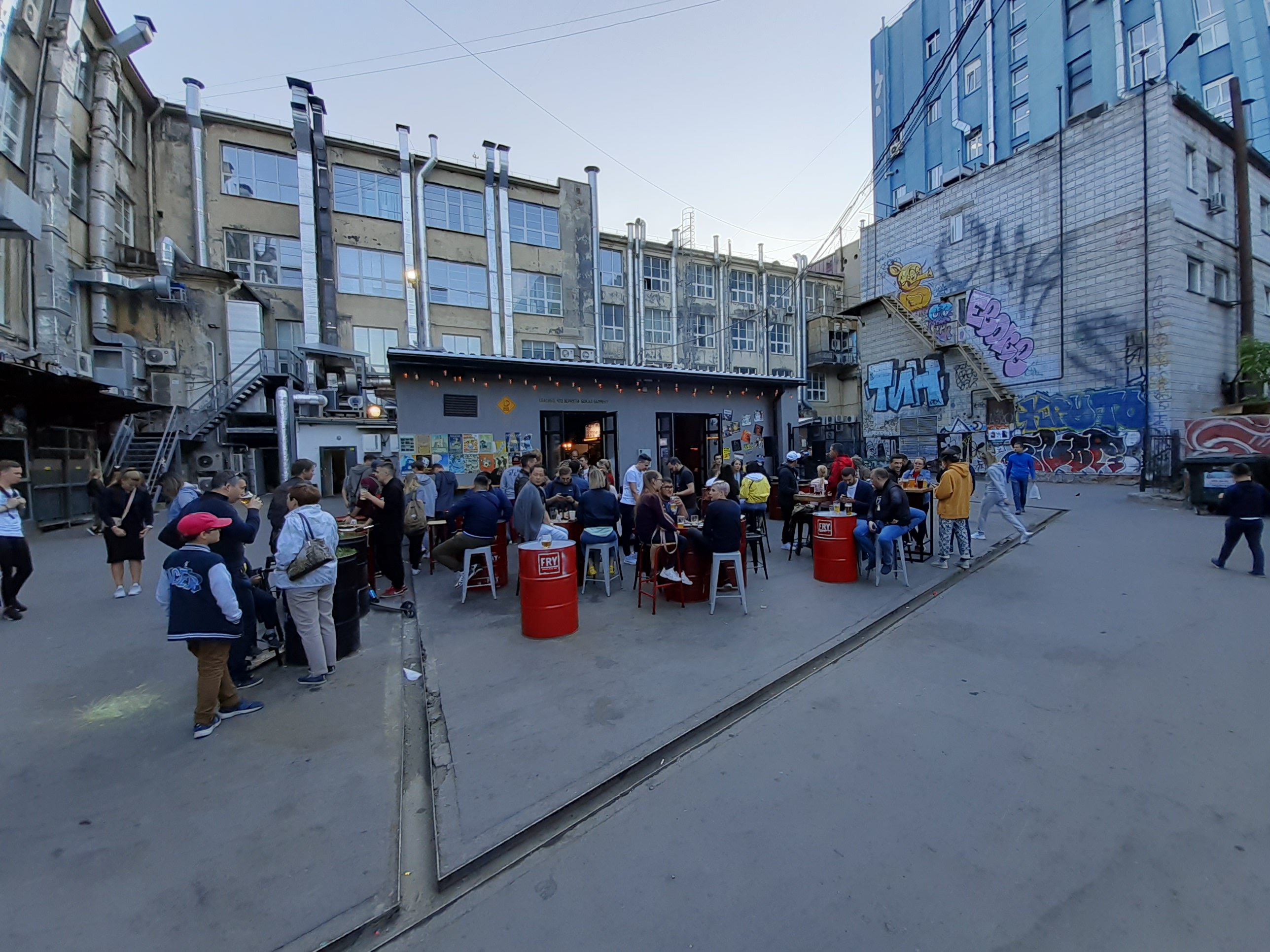 Backyard of the House of Textile, Tsentralny City District, Novosibirsk.